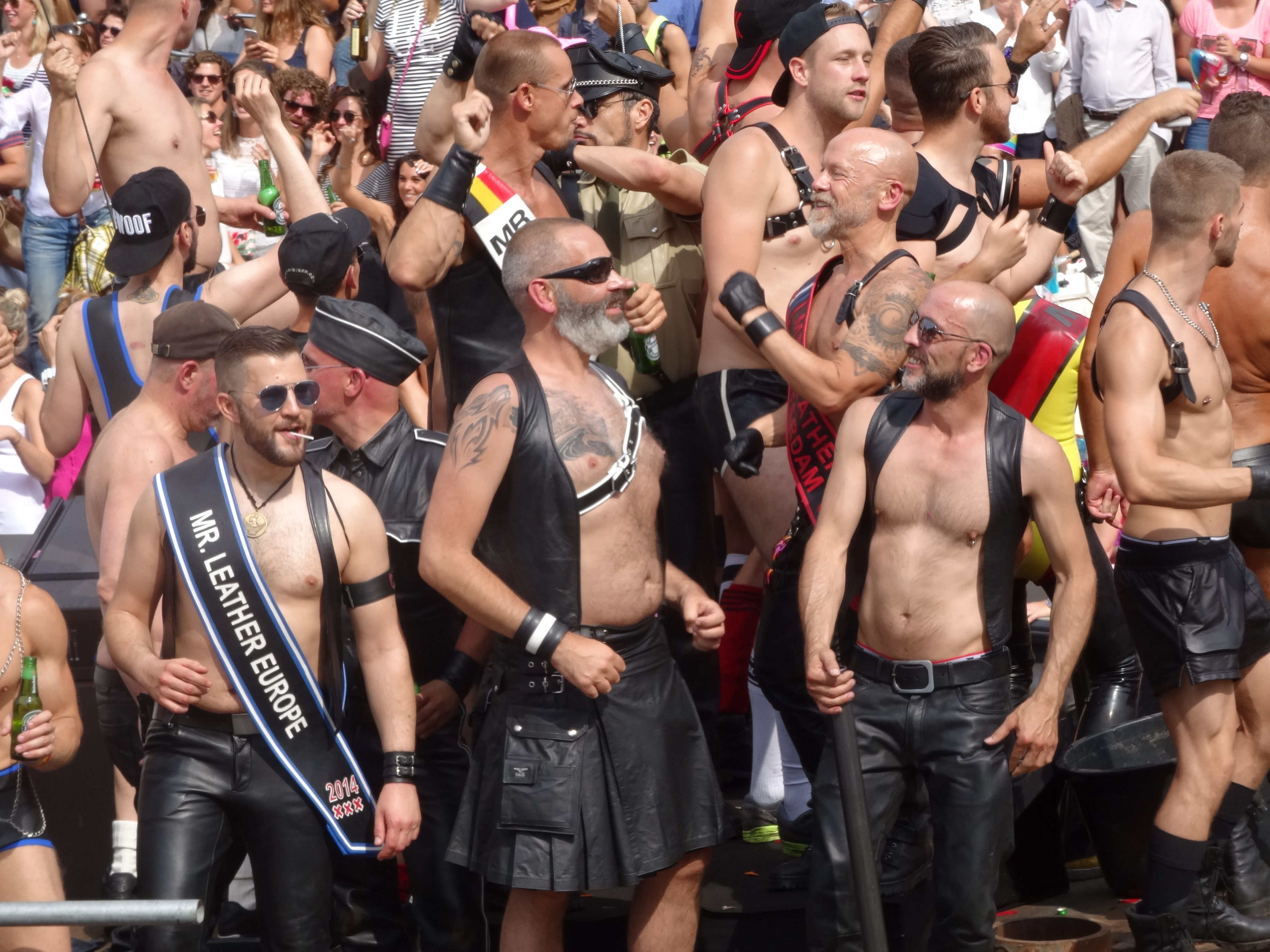 Impression of the Canal Parade at Amsterdam Gay Pride 2015